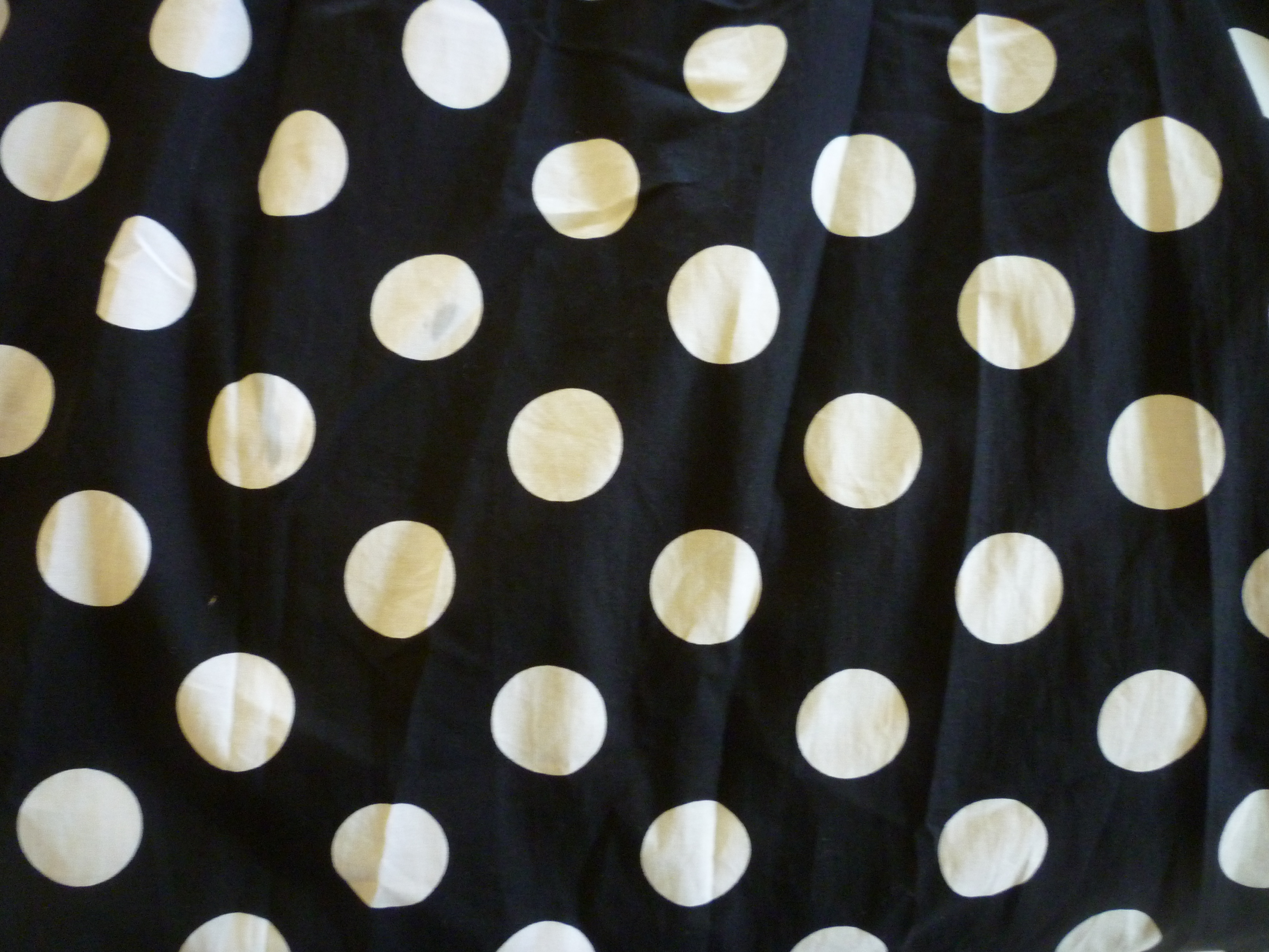 Polka dot printed fabric